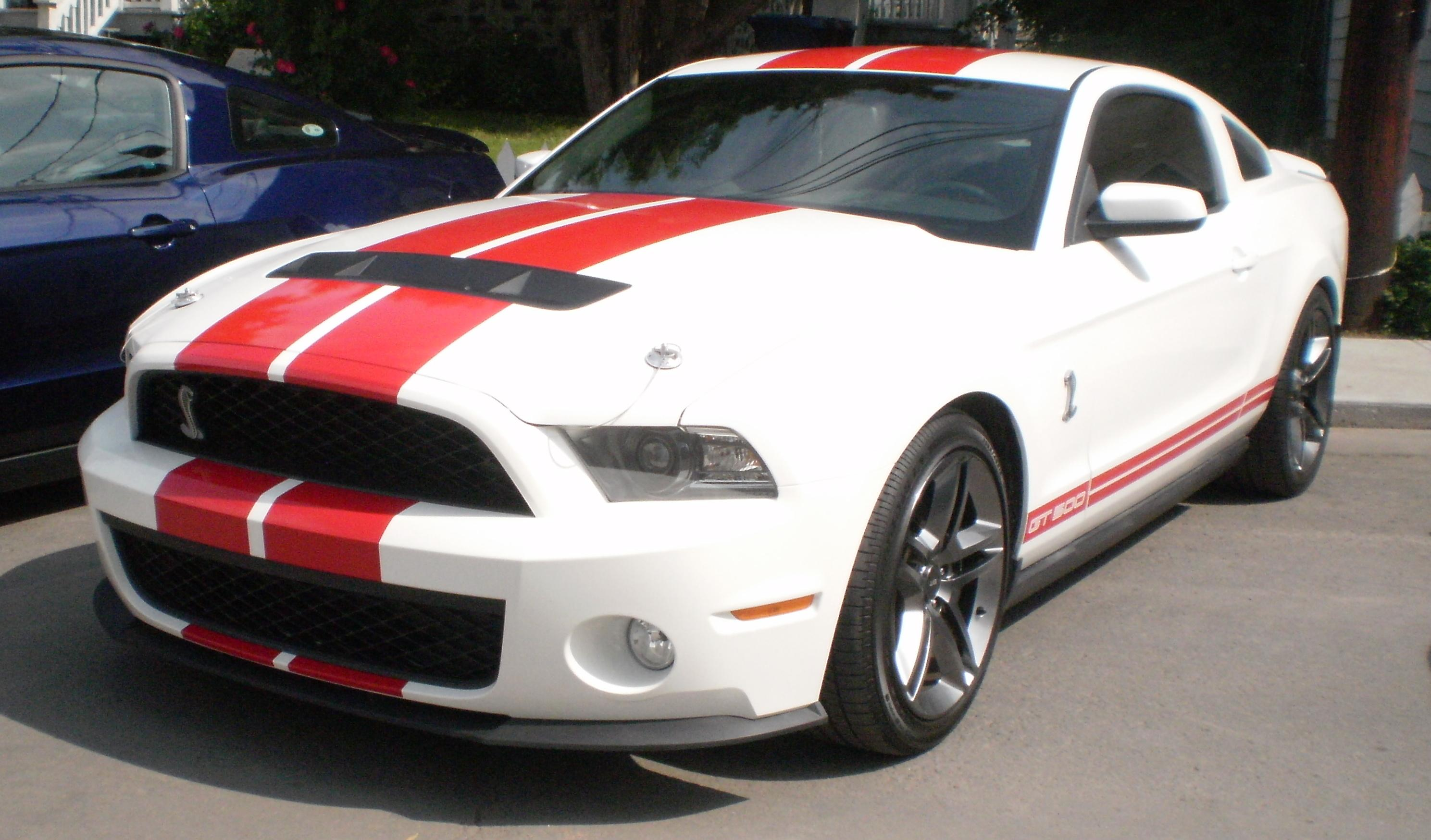 2010-present Ford Mustang GT500 photographed in Ste. Anne De Bellevue, Quebec, Canada at Crusin' At The Boardwalk 2011.